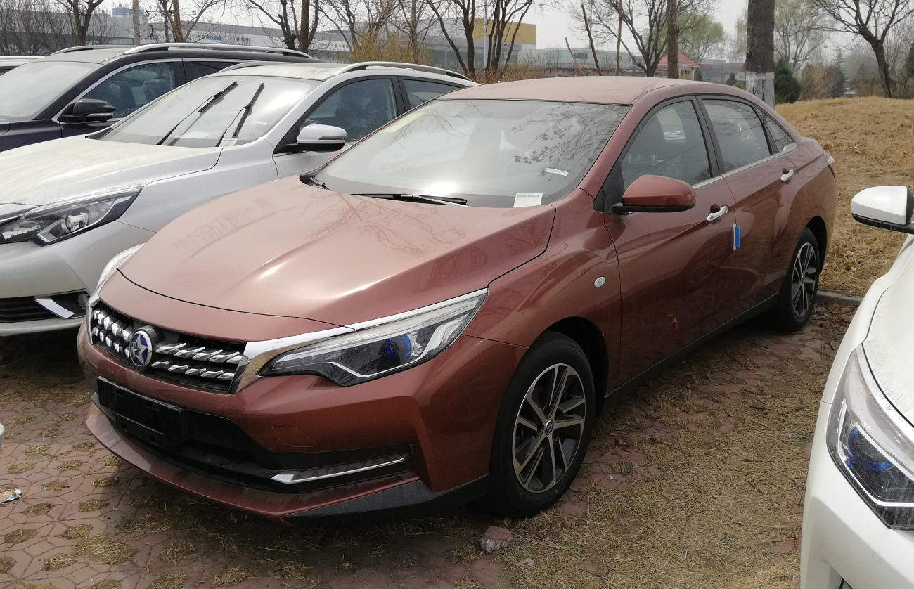 Venucia D60 photographed in Beijing, China.